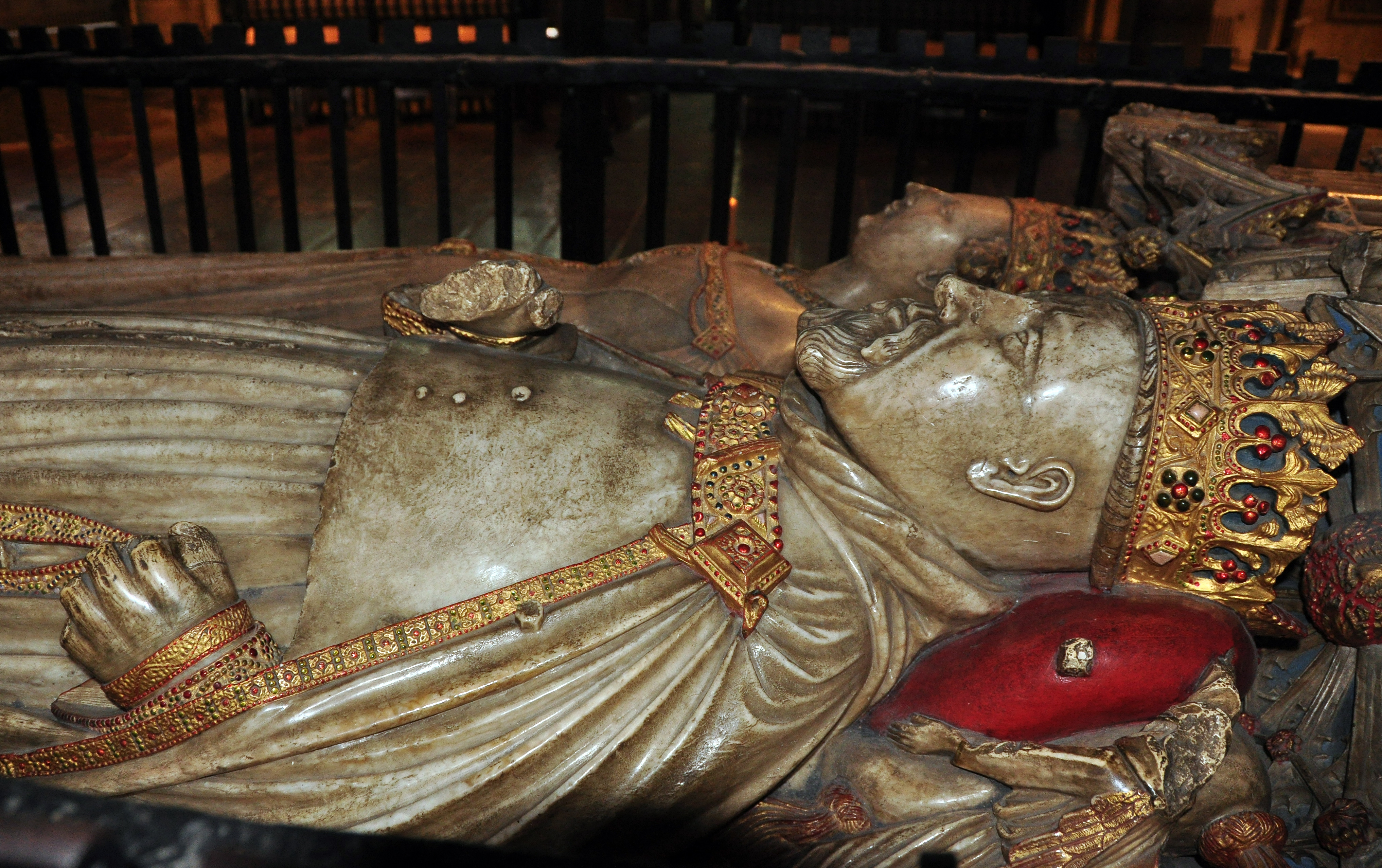 The tomb of Henry IV and Joan of Navarre in Canterbury Cathedral.